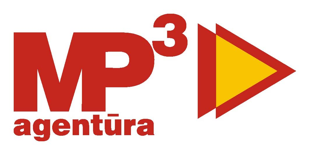 Alternate logo of M.P.3 Music Agency